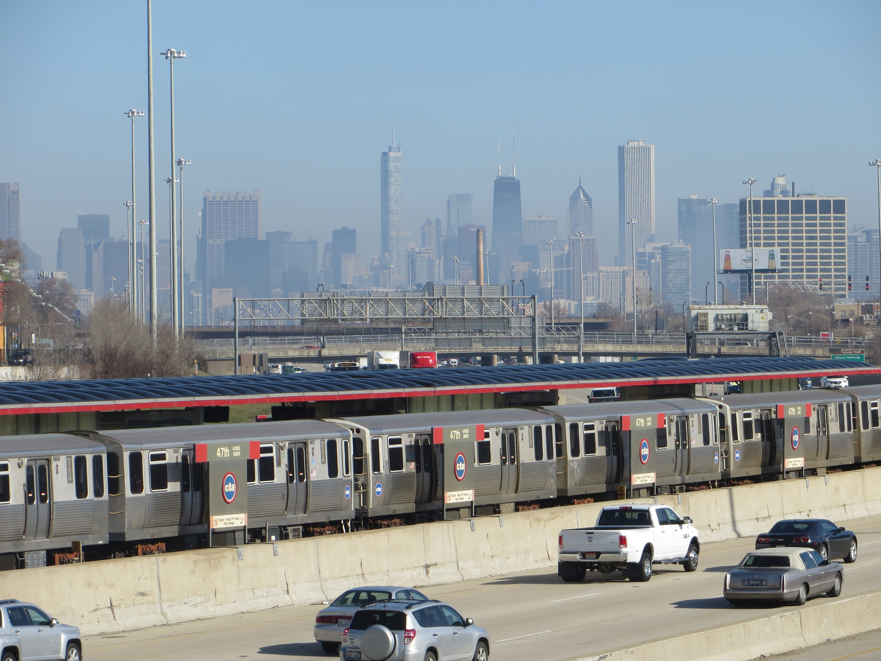 20160329 16 CTA Red Line L @ 47th St.